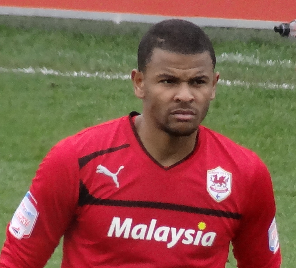 16/02/13 Cardiff v Bristol City, Championship, Cardiff City Stadium, Cardiff, Wales